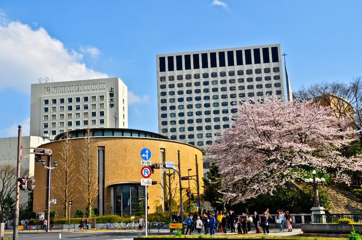 St. Ignatius of Loyola Church, infront of Sophia University buildings